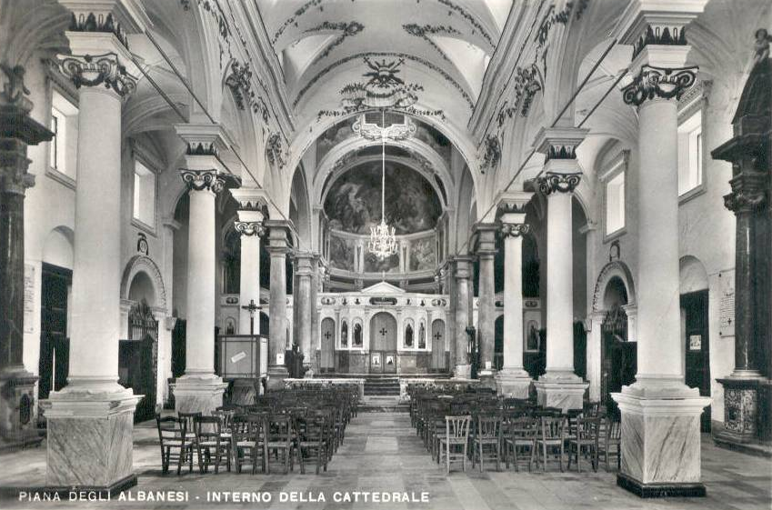 The Cathedral of of Saint Demetrius the Martyr before the restoration of the 1960s; Italo-Albanian Church, Eparchy of Piana degli Albanesi, Sicily, Italy.